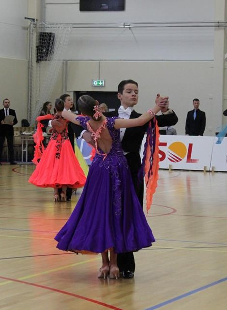 Pildil on kujutatud aeglast fokstrotti tantsivad võistluspaarid. Võimalik on pildil näha standardtantsudele omast riietust ja hoiakut.